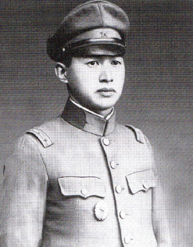 Jozo Iwahashi (1912-1944)